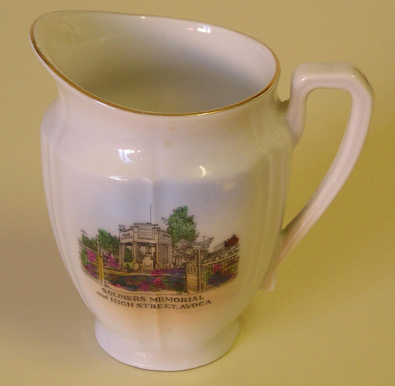 Avoca, Victoria: souvenir jug picturing Avoca Soldiers' Memorial. Jug is believed to have been produced in the late 1920s or 1930s. There is also a companion sugar bowl with the same image. The pottery was produced by Royal Scenic China. It was made in Germany. In the centre of the manufacturer's stamp appears the initials "IBC"